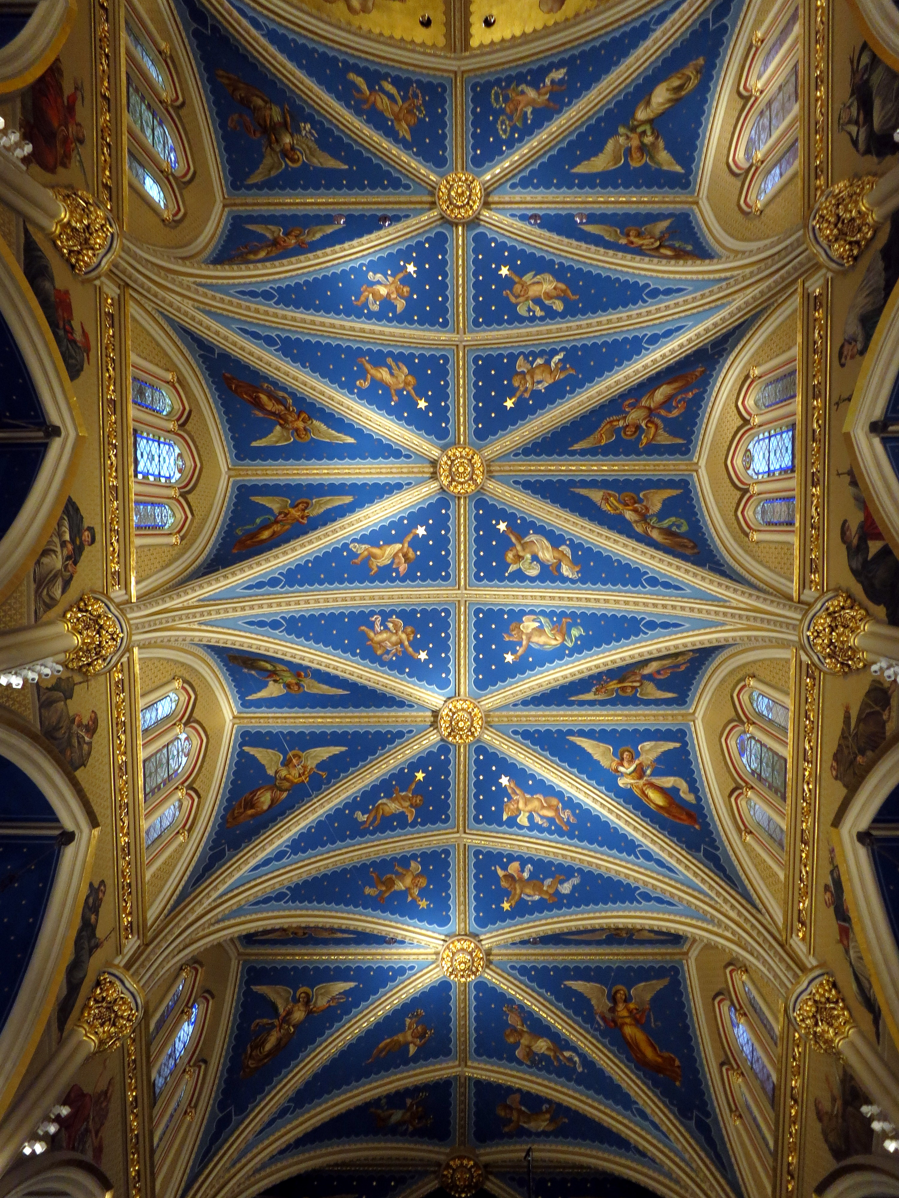 Basilica of the Sacred Heart (Notre Dame, Indiana) - interior, vault